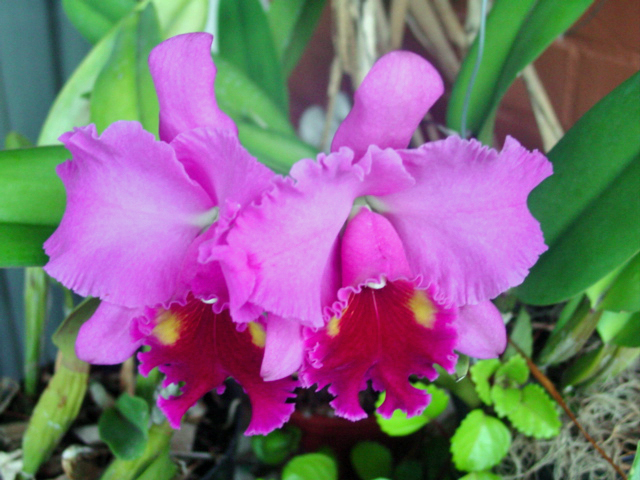 Brassolaeliocattleya "Turanbeat", hybrid between Brassavola, Laelia and Cattleya genera. M. A. P. Accardo Filho's plant and photo.